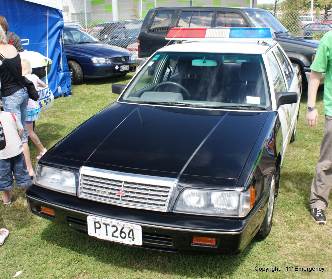 1990–1991 Mitsubishi V3000 Executive sedan (Ministry of Transport), photographed at the Feilding Armed and Emergency Service Day, at Manfeild Autocourse, New Zealand.